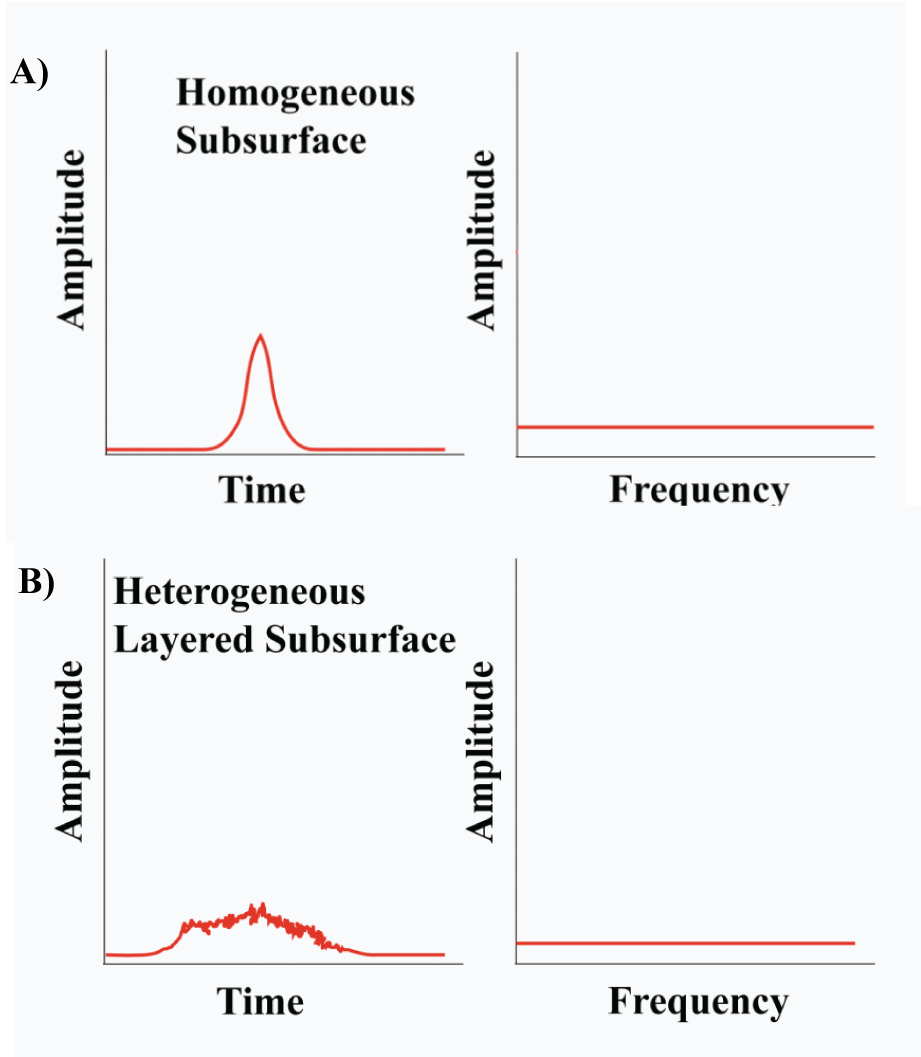 Frequency composition of two different signals. Dispersion is a result of the heterogenous subsurface.